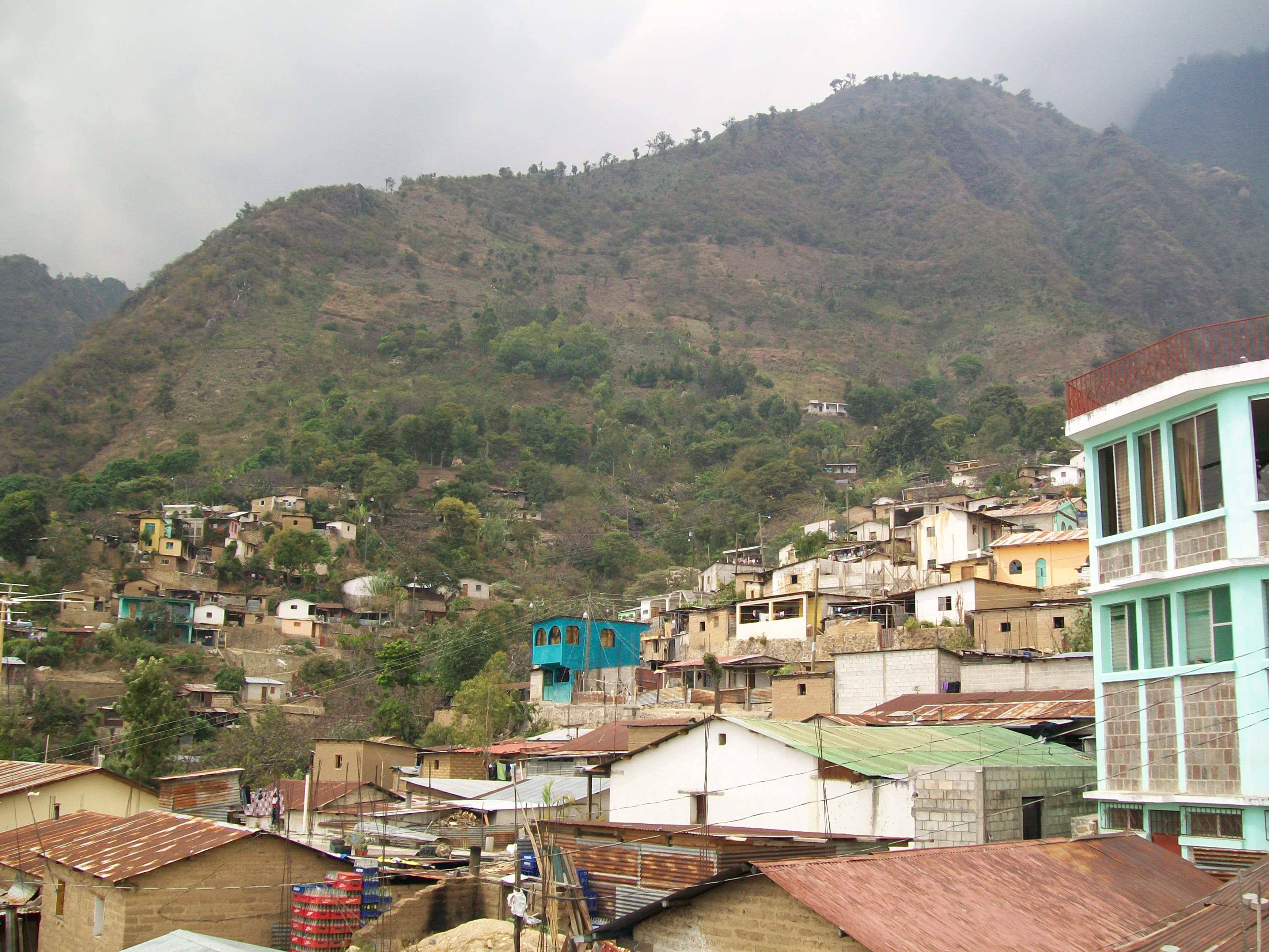 Looking up the mountain in Santa Cruz La Laguna.